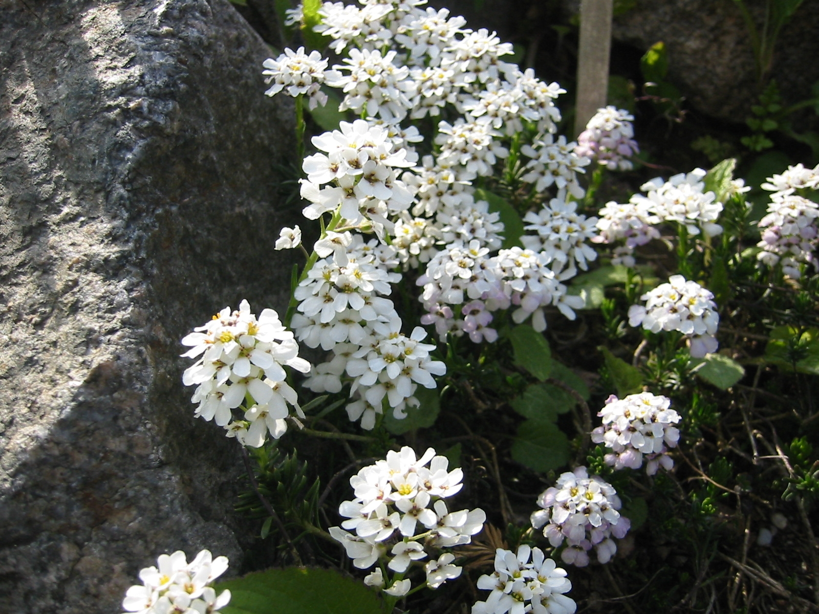 Iberis saxatilis L ssp saxatilis; Botanical Garden Vienna, Austria